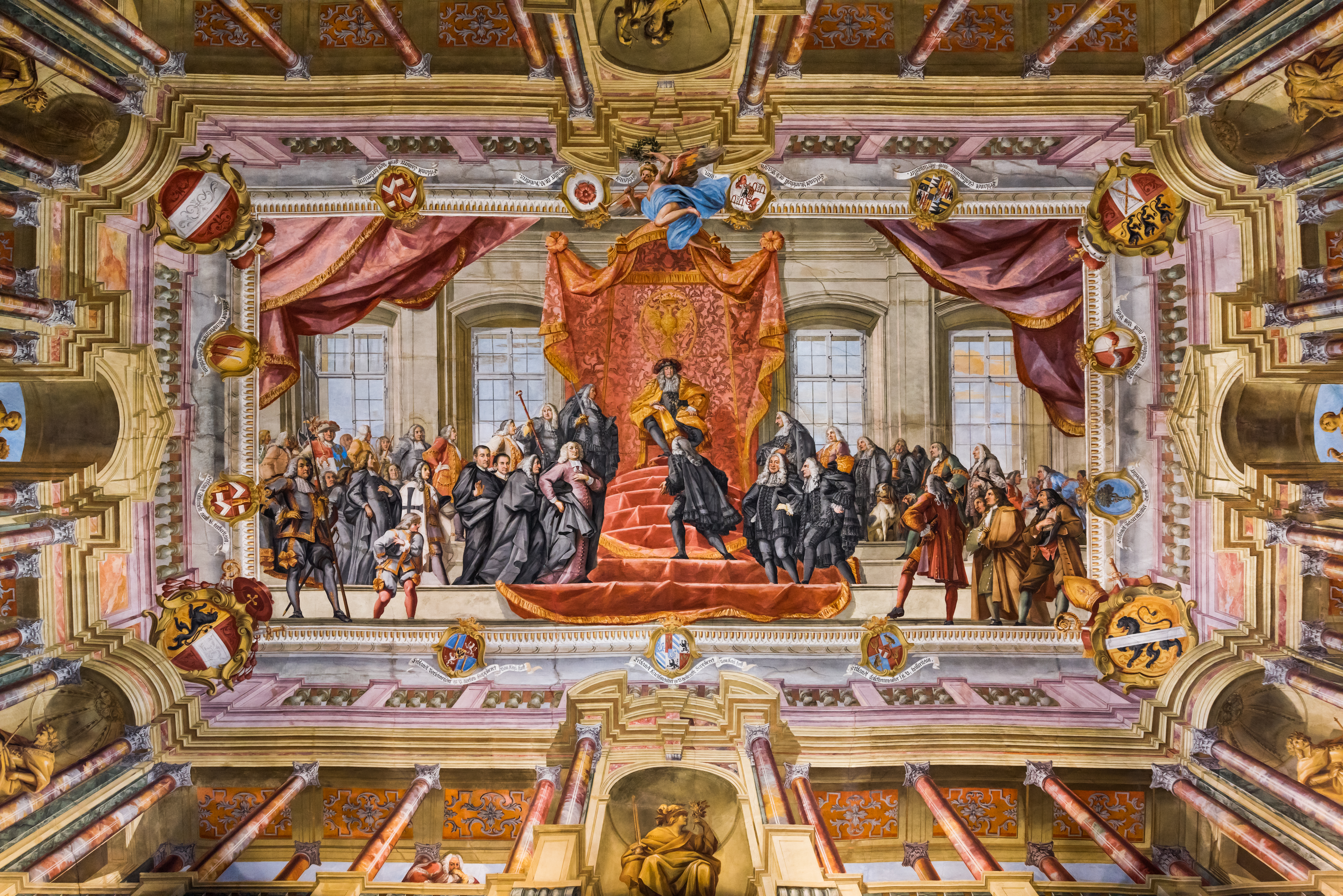 Ceiling fresco by Josef Ferdinand Fromiller in the Large Hall of Coats of Arms, Landhaus, 1740. Homage to Charles VI, Holy Roman Emperor, by the nobles of Carinthia, in the year 1728, inner city, statutary city Klagenfurt, Carinthia, Austria, EU